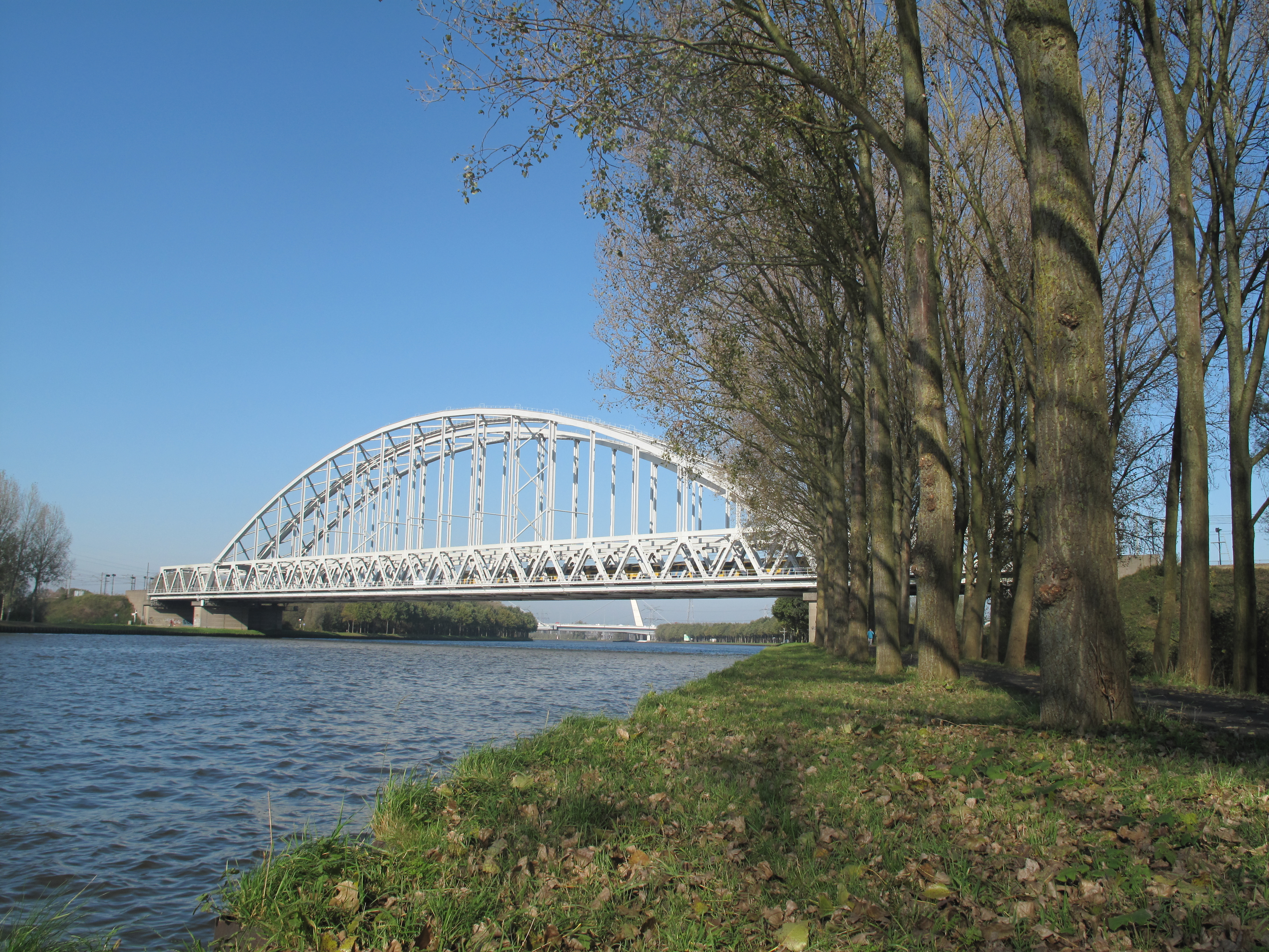 between Driemond and Weesp, railway bridge across Amsterdam Rijnkanaal